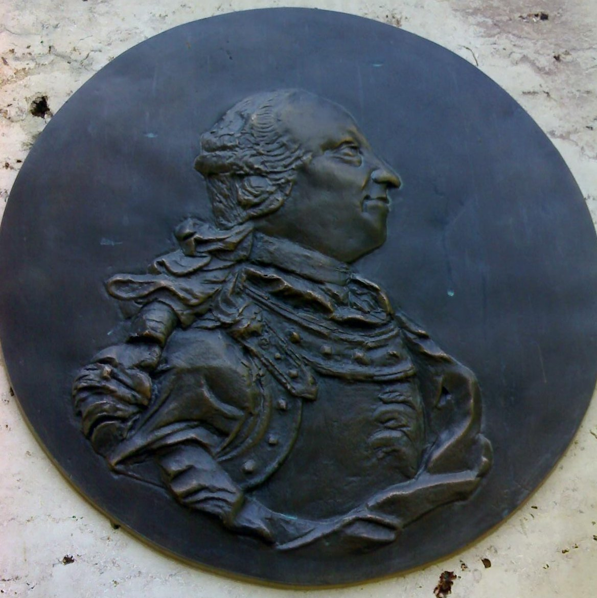 Commemoration plaque of Karl Eugen shot at Schloss Hohenheim, Stuttgart, Germany